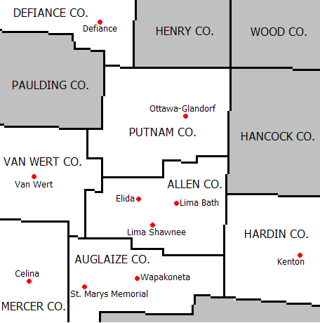 Same image taken from the US Census with self modifications, updated to correct the spelling of "St. Mary's" to "St. Marys". From ([1]). Date: 2000